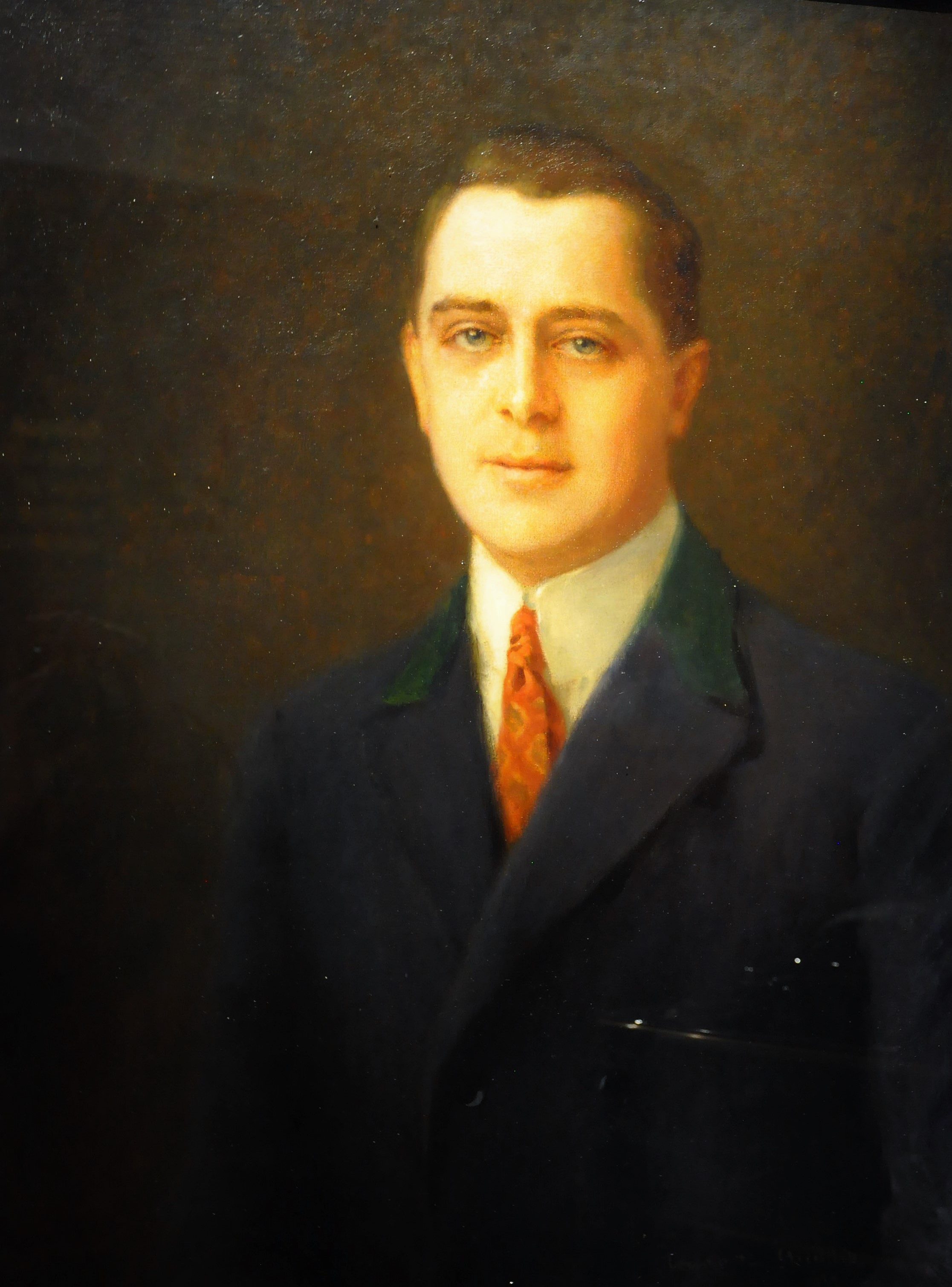 Charles V of Schwarzenberg - Czech (Bohemian) nobleman, died 1914.